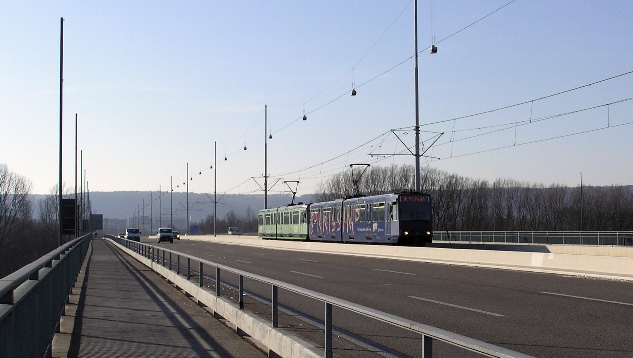 The light rail crossing the Konrad Adenauer Bridge in the south of Bonn, Germany.